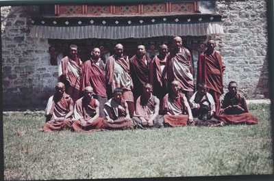 A group of monks from Nechung monastery. The second monk on the right (seated) with a dog on his lap is Lobsang Jigme who succeeded Lobsang Namgyal as the Nechung oracle in 1945. The group includes monks of the Kagyu sect.